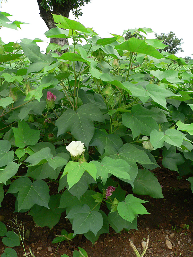 Cotton plant (Gossypium hirsutum) photographed near Kandi, Benin